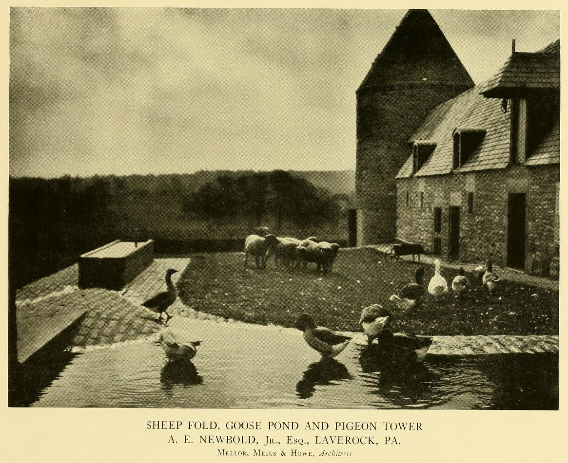 Sheep Fold, Goose Pond and Pigeon Tower. Laverock Farm, Cheltenham Township, Montgomery County, Pennsylvania.